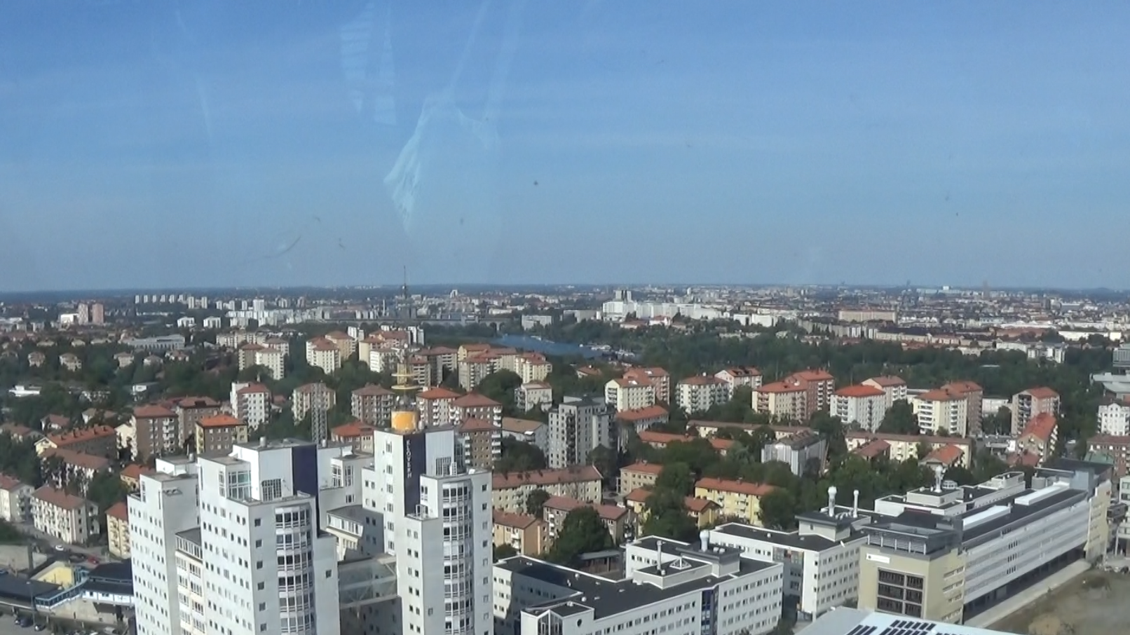 erricson globe, stockholm